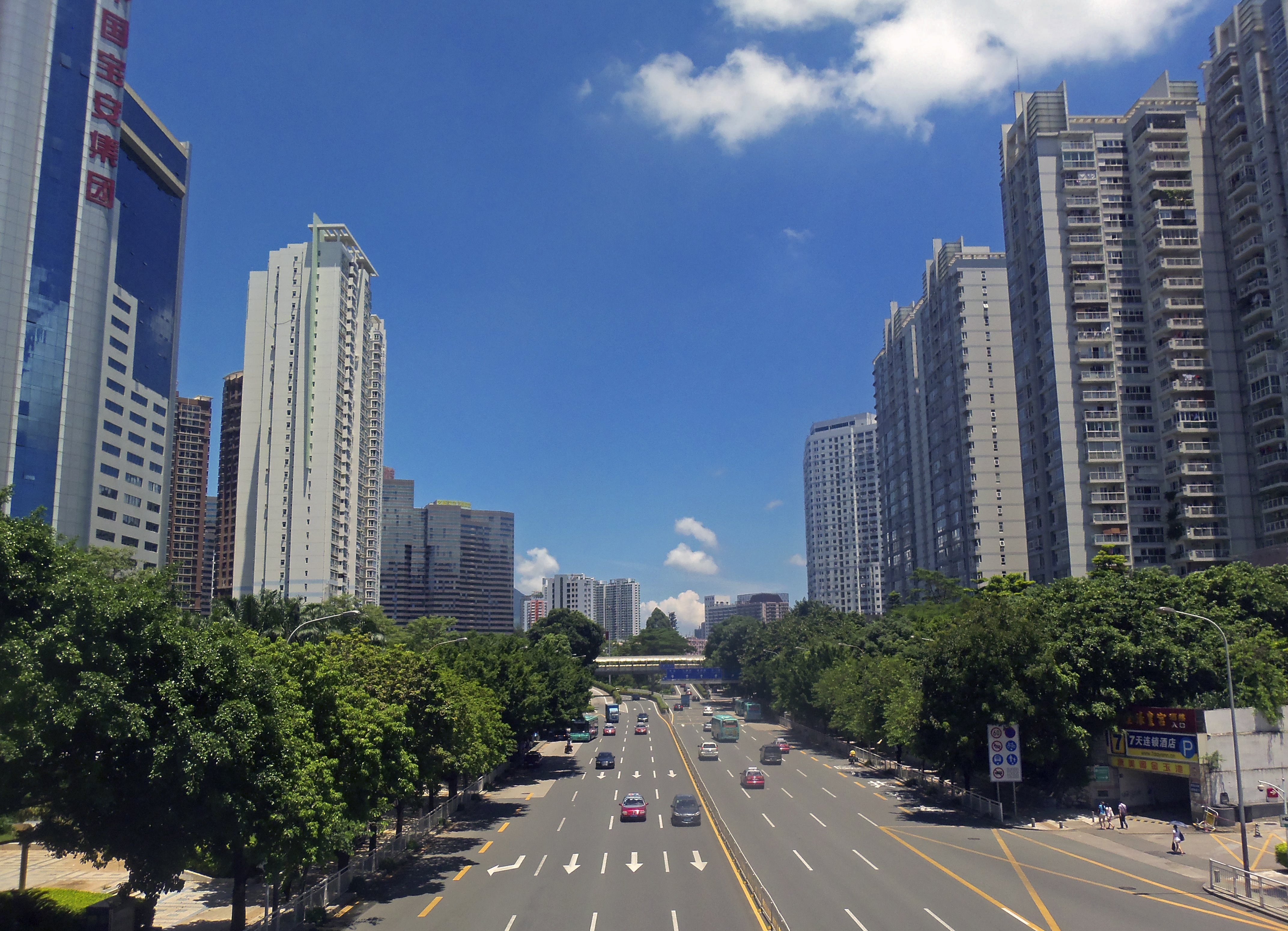 Taken from the pedestrian walkway along the Renmin North Road overpass in the Luohu District